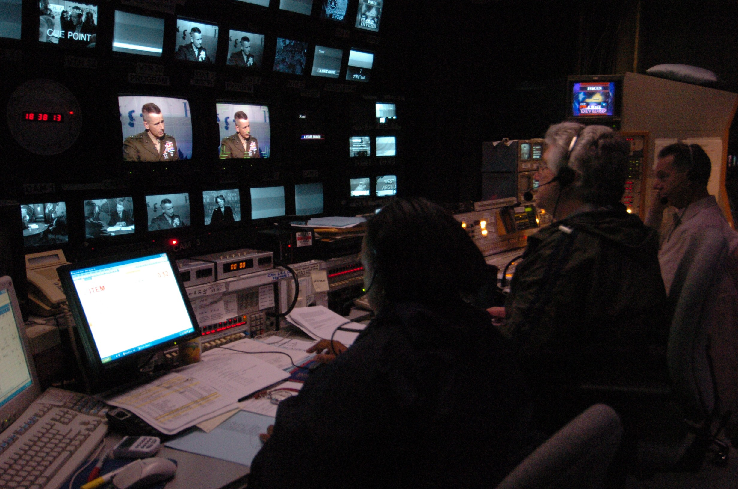 Photo of The NewsHour with Jim Lehrer control room, taken during Gen. Pace interview on November 7, 2005.